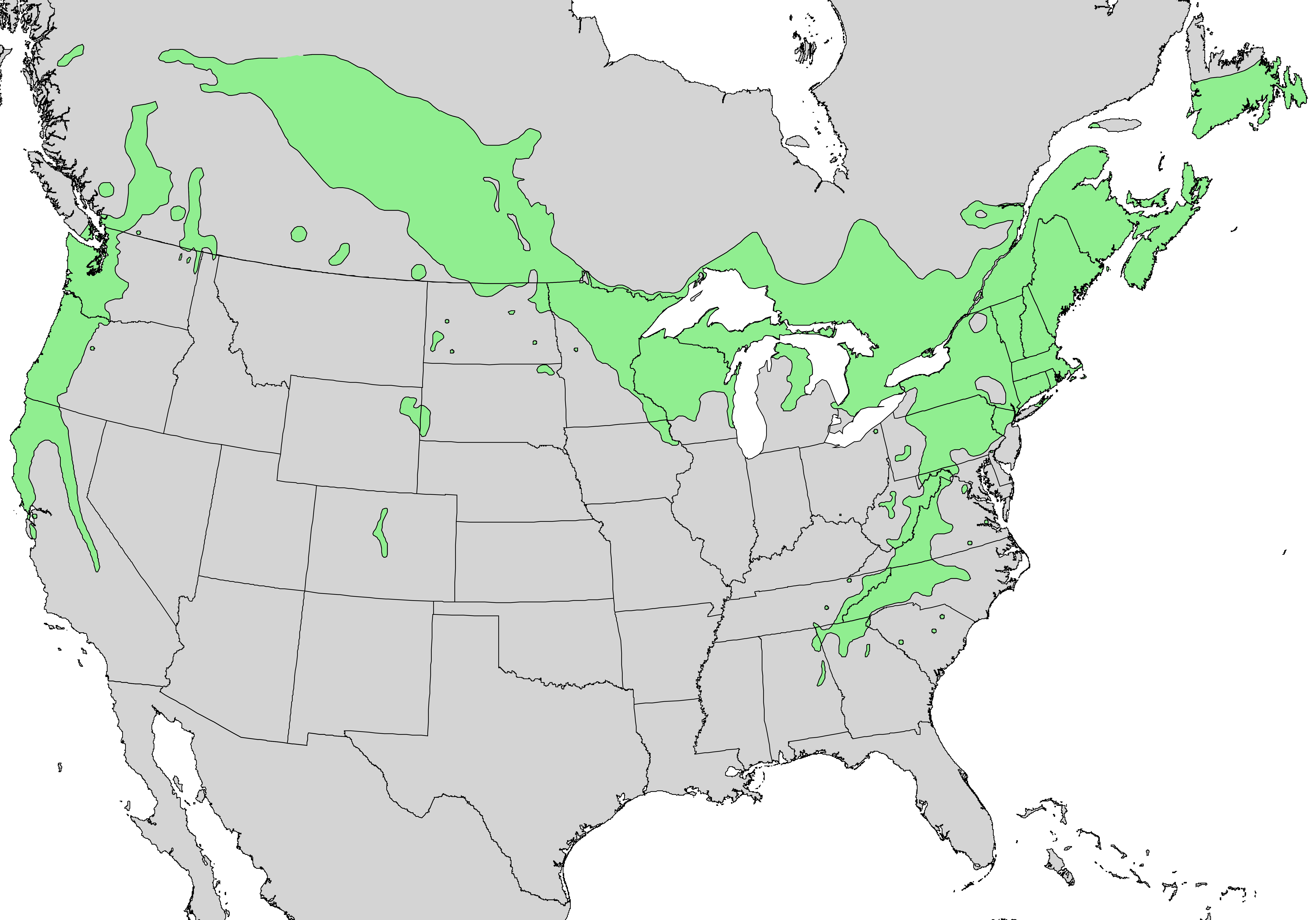 Natural distribution map for Corylus cornuta